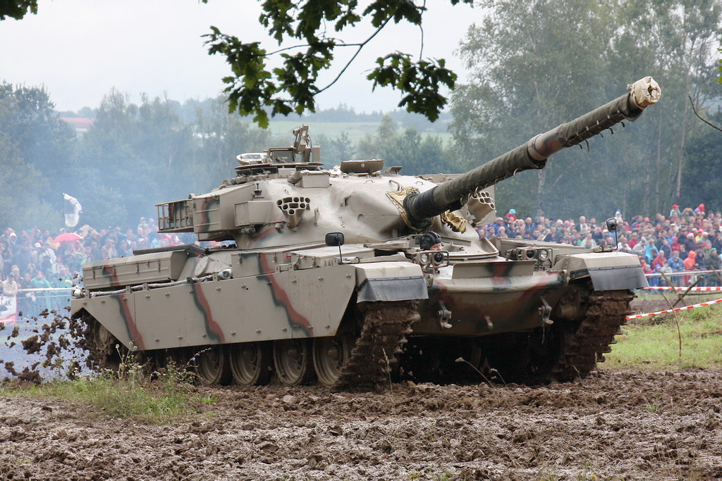 Former Jordanian tank Chieftain during 8th 'Tank Day' in Military Technical Museum in Lešany.